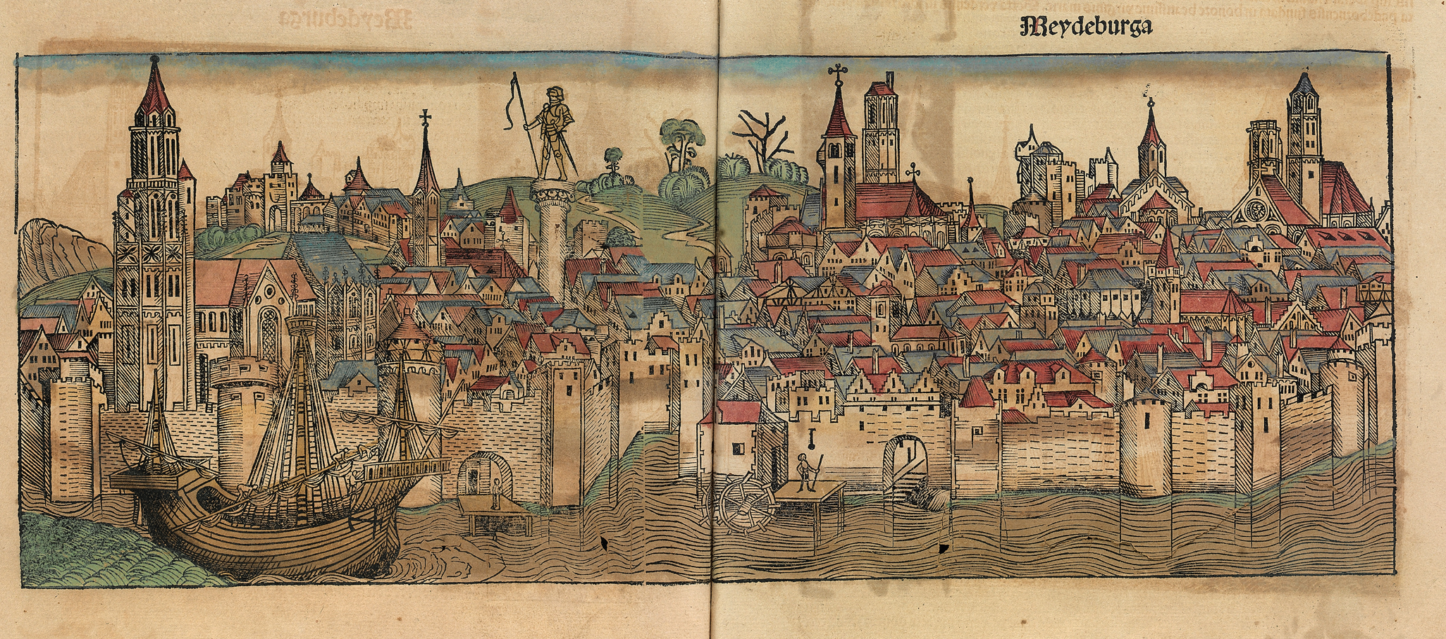 Woodcut of Magdeburg from the Nuremberg Chronicle. This image has also be used for Paris, France and Tarvisio, Italy. See details here.